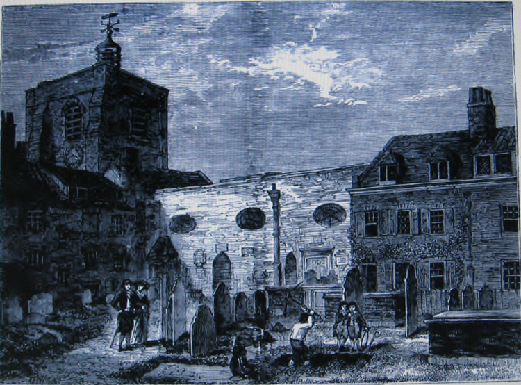 Thornbury, W., London old and New, London Paris and Newyork, 1881, p.337 (Engraving of the Old Church of St. James Clerkenwell)